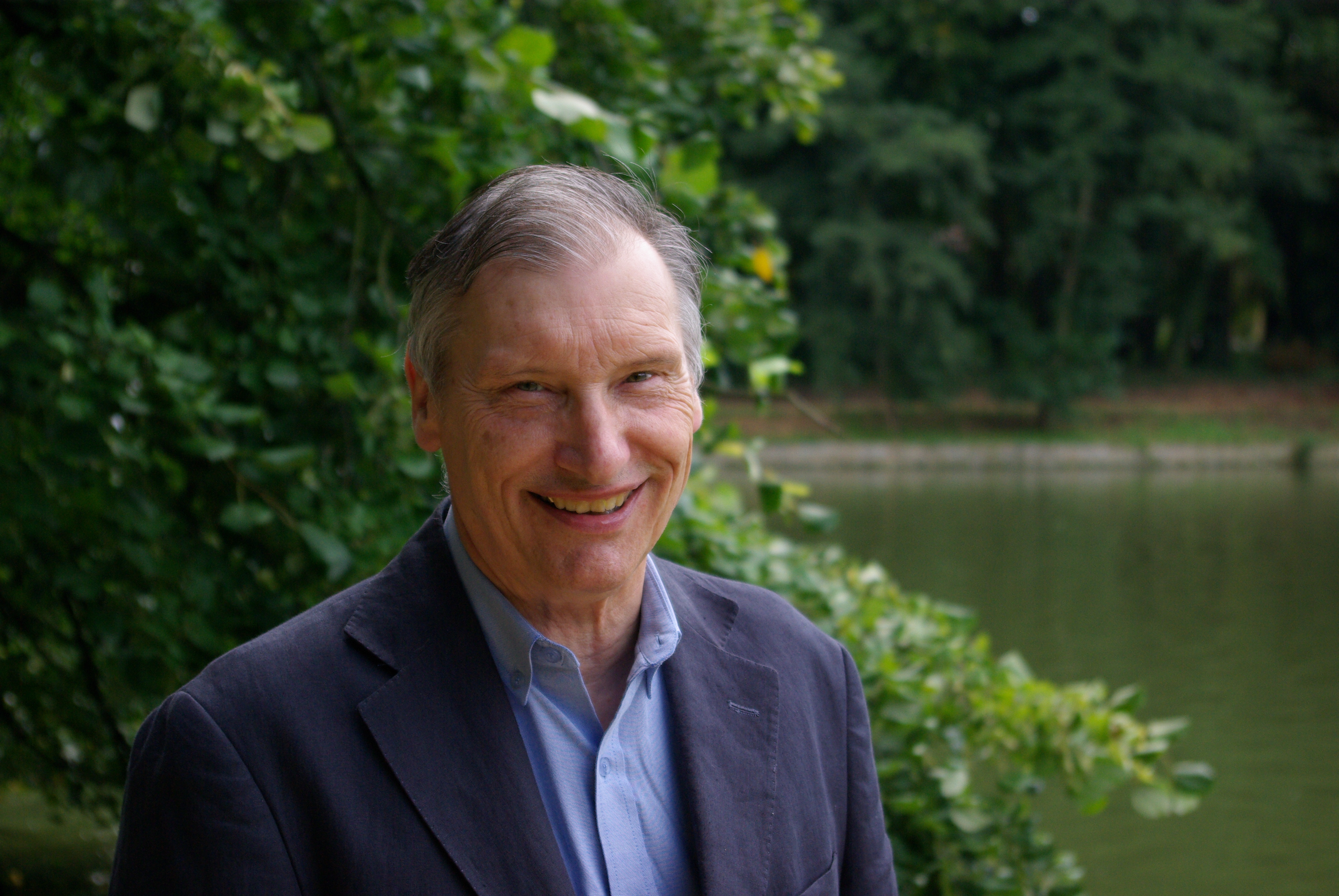 French politician Charles Pire.